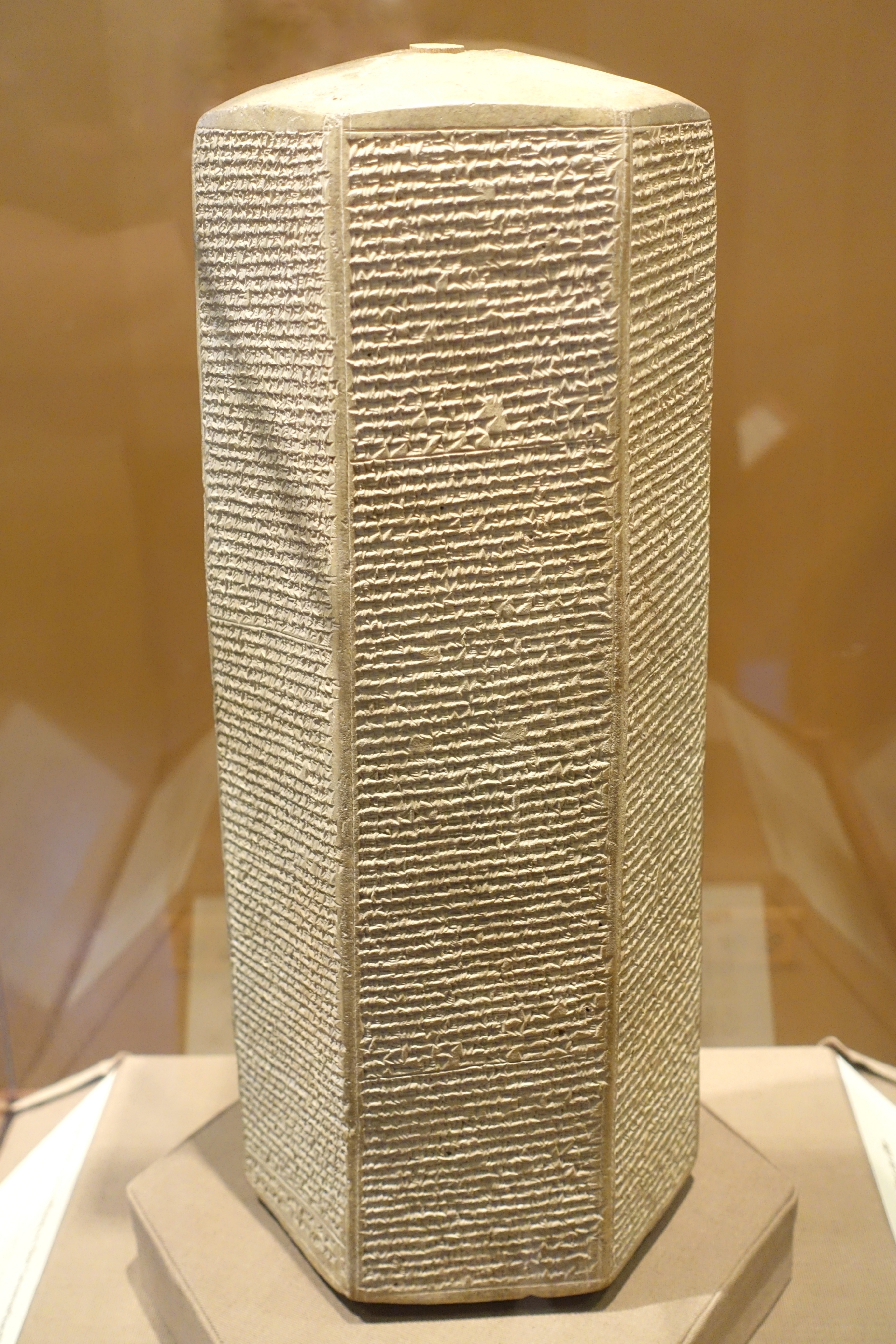 Exhibit in the Oriental Institute Museum, University of Chicago, Chicago, Illinois, USA. This work is old enough so that it is in the public domain.